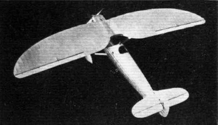 A German Dornier Do 10 fighter from above.